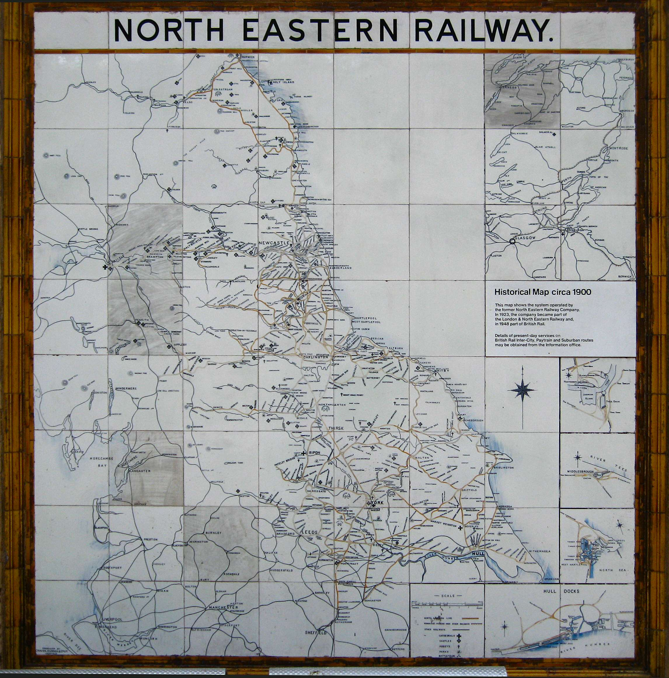 North Eastern Railway map, York station